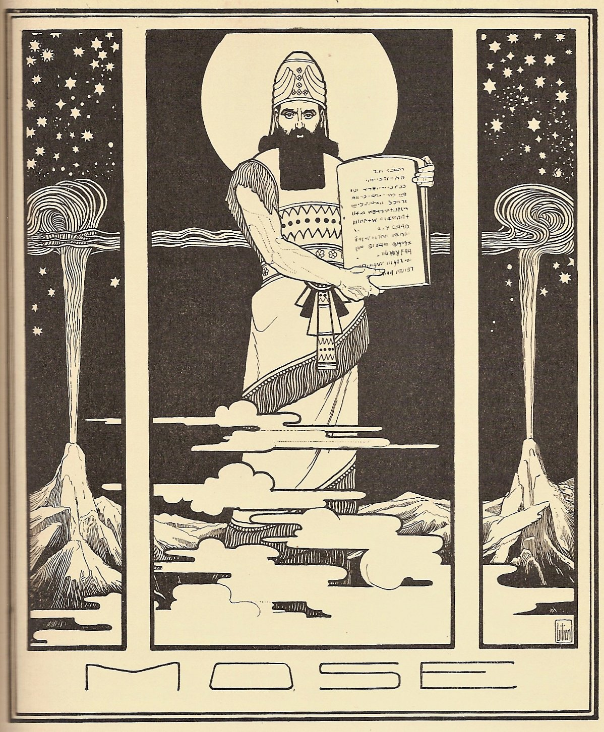 Moses with the tablets of stone.